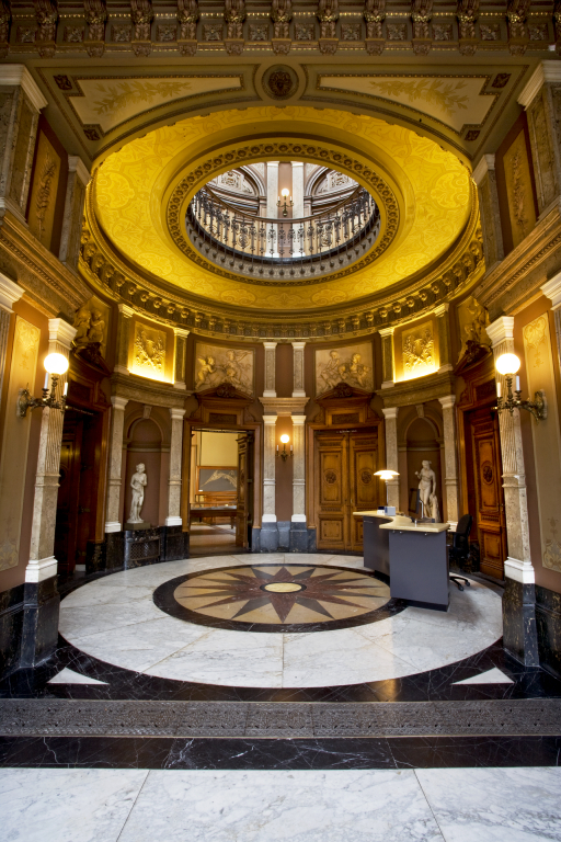 The Entrance Hall of Teylers Museum, Haarlem, The Netherlands.